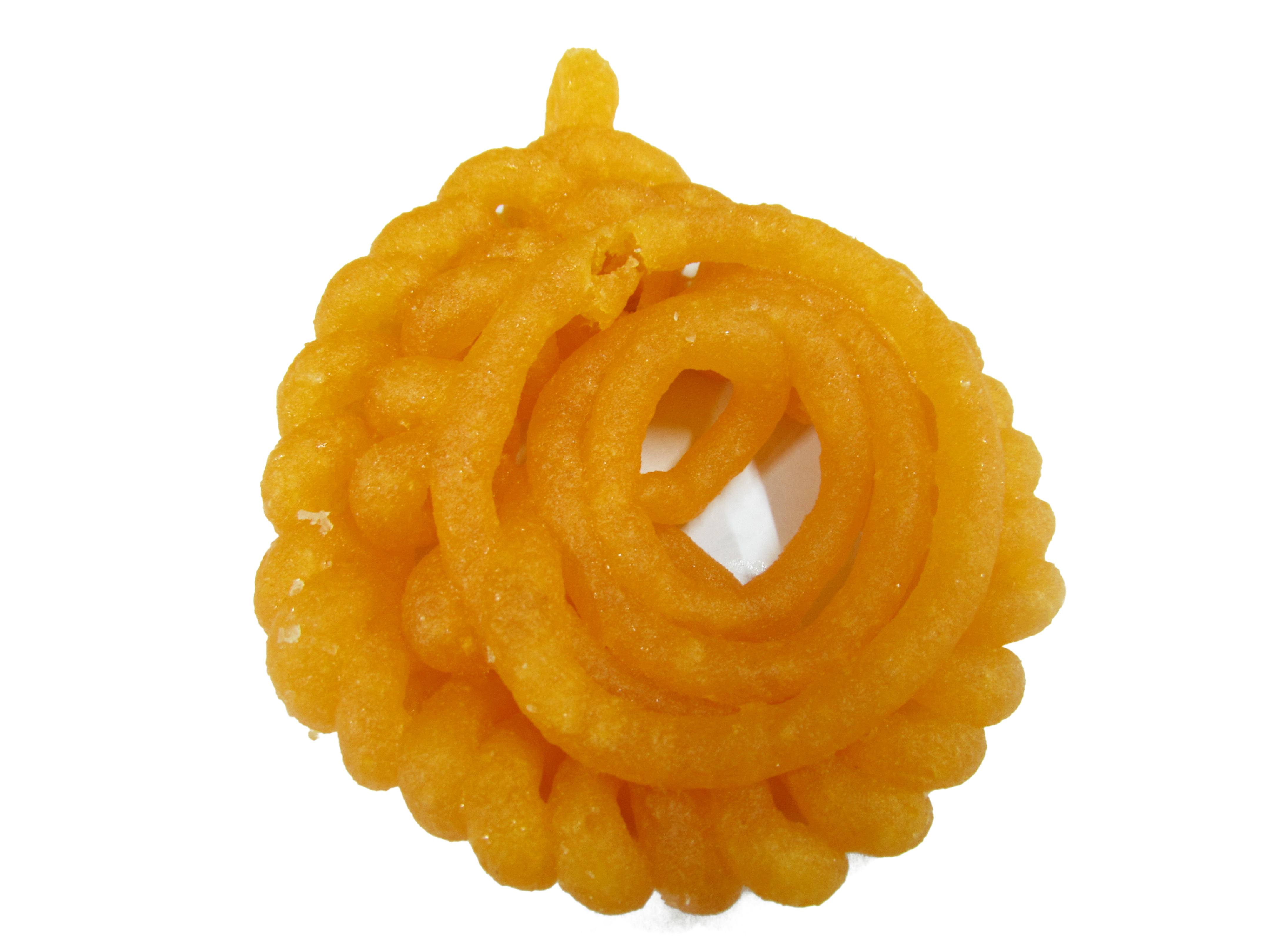 Red Jalebi